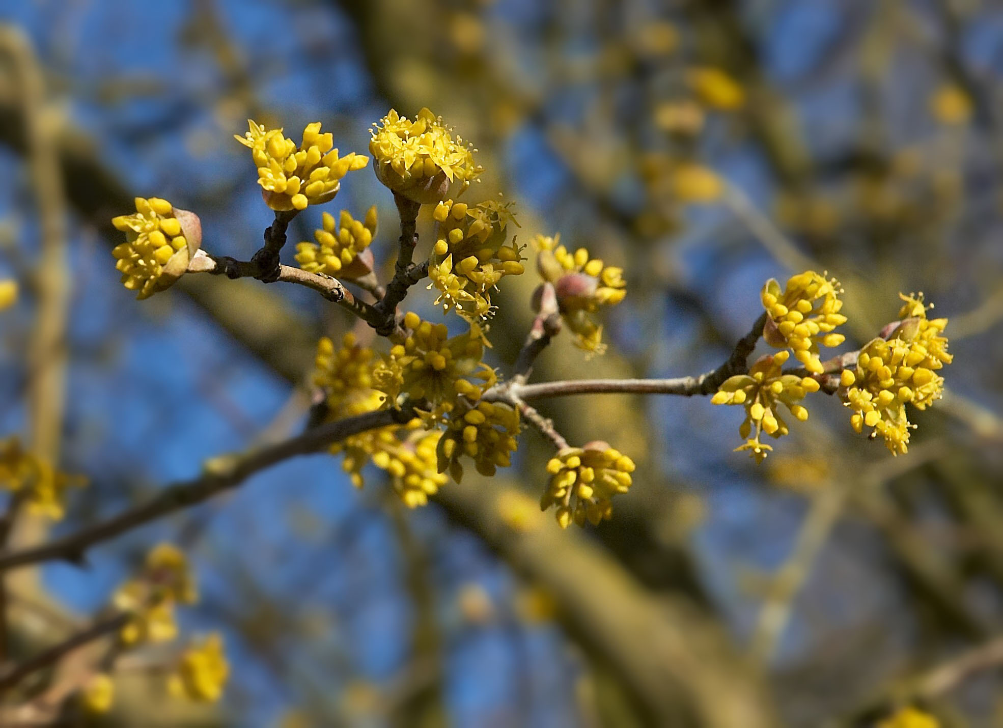 European Cornel or Cornelian cherry